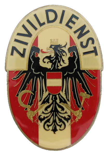 Batch of the Austrian civil service (Zivildienst, performed instead of the obligatory military service), used 1982 in Graz by Dr. Marcus Gossler, who also took the picture (on 23 Dec 2005) and uploaded the file.